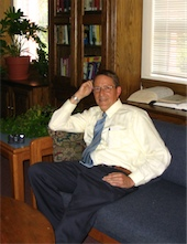 Photo of Henry Alley.